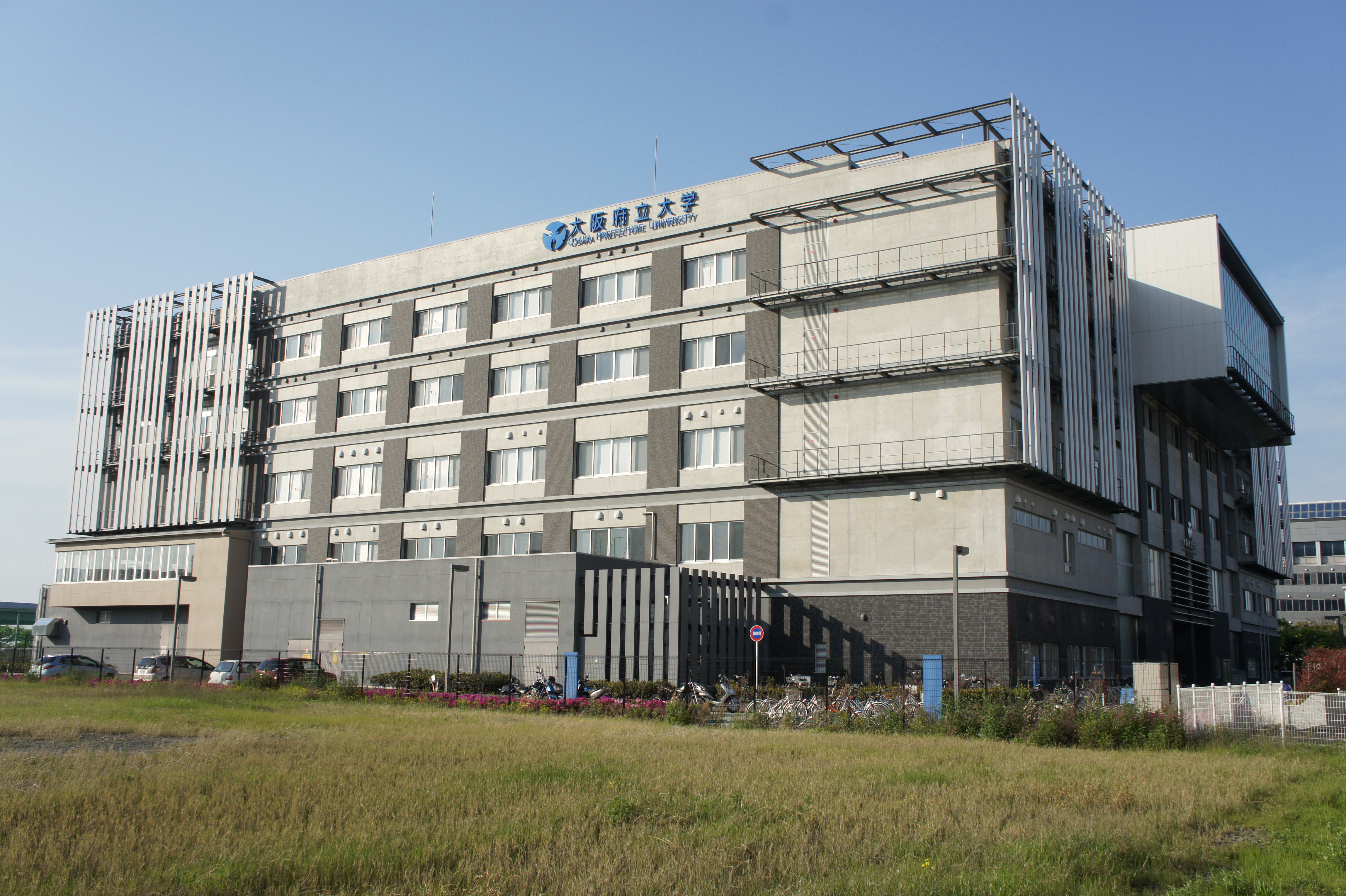 Osaka Prefecture University(Rinku Campus), 1-58 Rinku-oraikita Izumisano-City Osaka Japan.